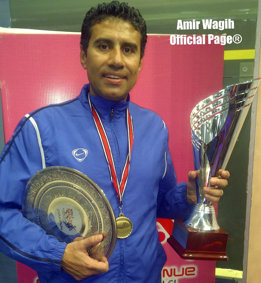 Amir Wagih with titles after winning the World mixed open under 21 with the Egyptian national team